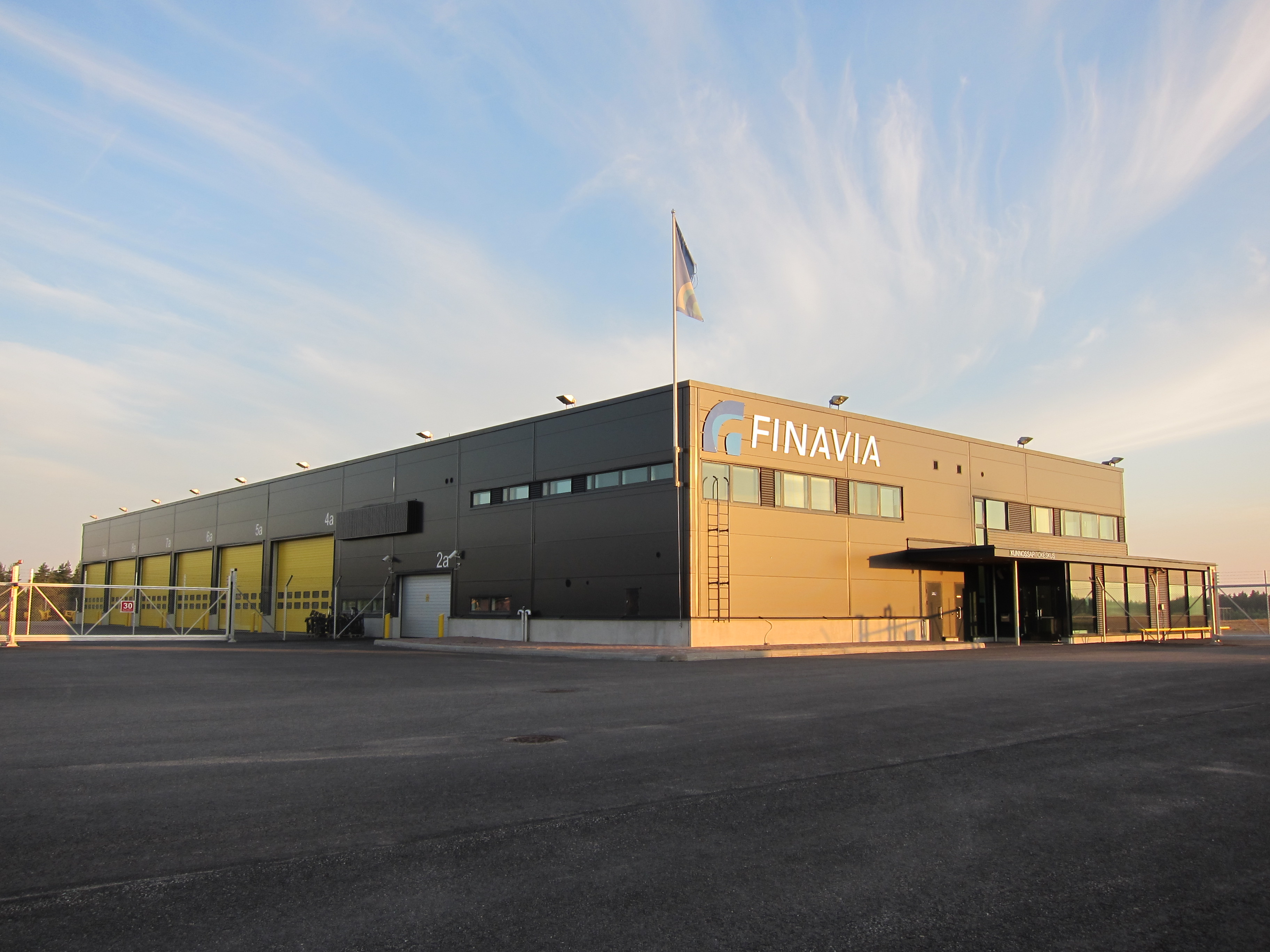 Turku Airport, Finland.